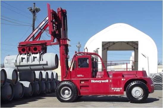 Moving UF6 Cylinder at Honeywell Metropolis Works